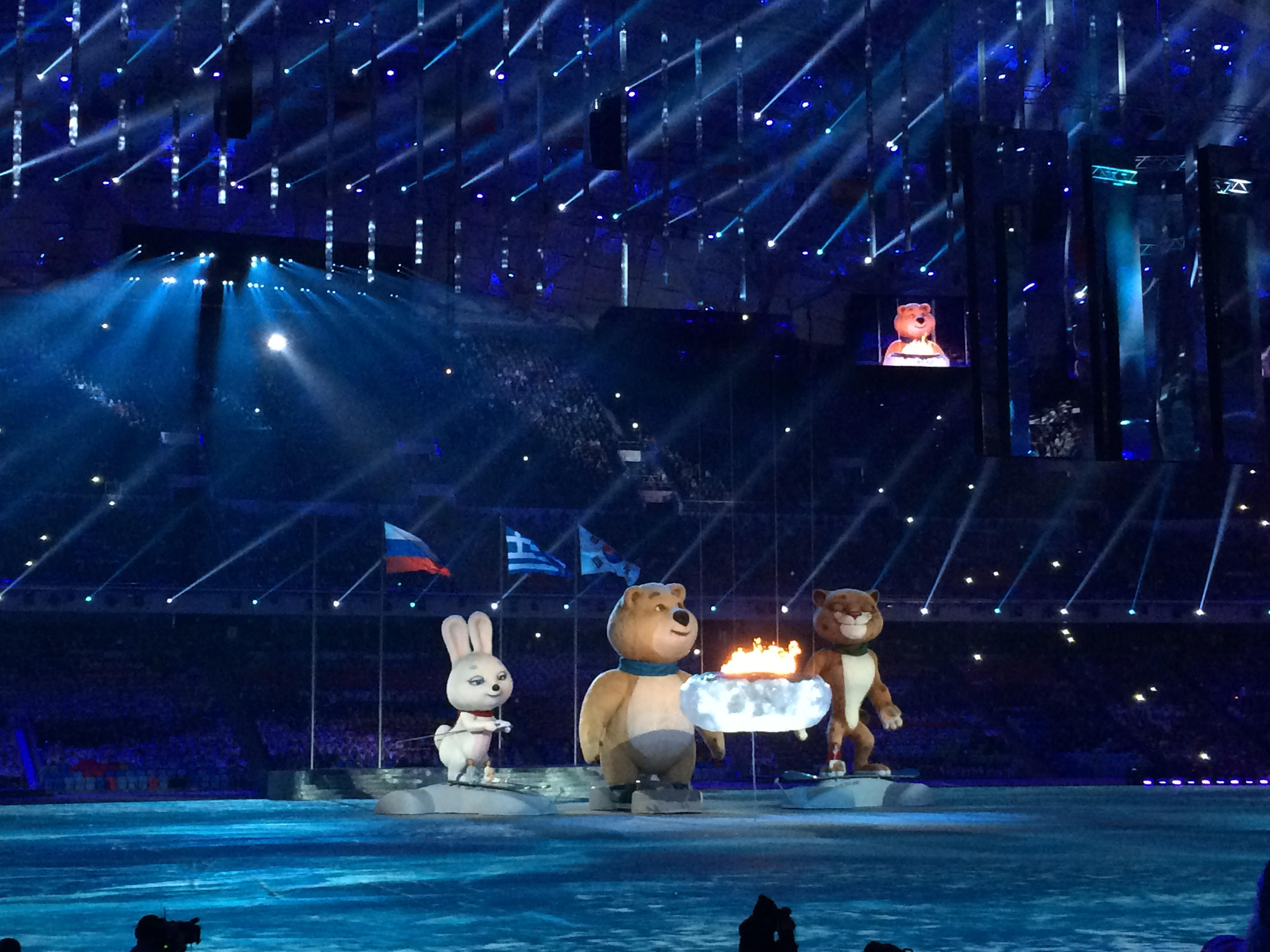 Closing Ceremony, Fisht Olympic Stadium (73)